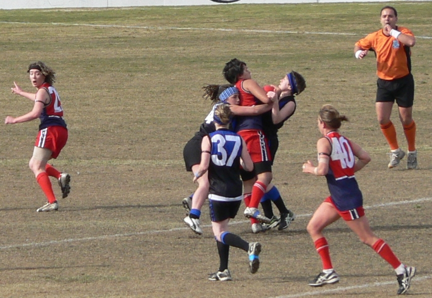 Player caught "holding the ball" in a game of women's Aussie Rules Footy.